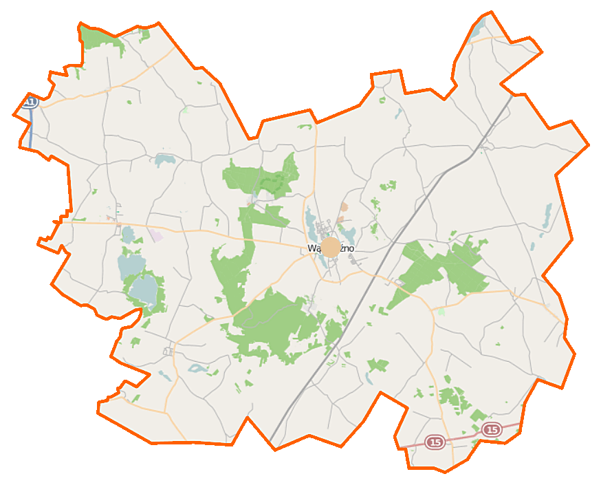 Map of Powiat wąbrzeski, Poland This map of Powiat wąbrzeski was created from OpenStreetMap project data, collected by the community. This map may be incomplete, and may contain errors. Don't rely solely on it for navigation. Border coordinates53.398918.6829←↕→19.164353.1665